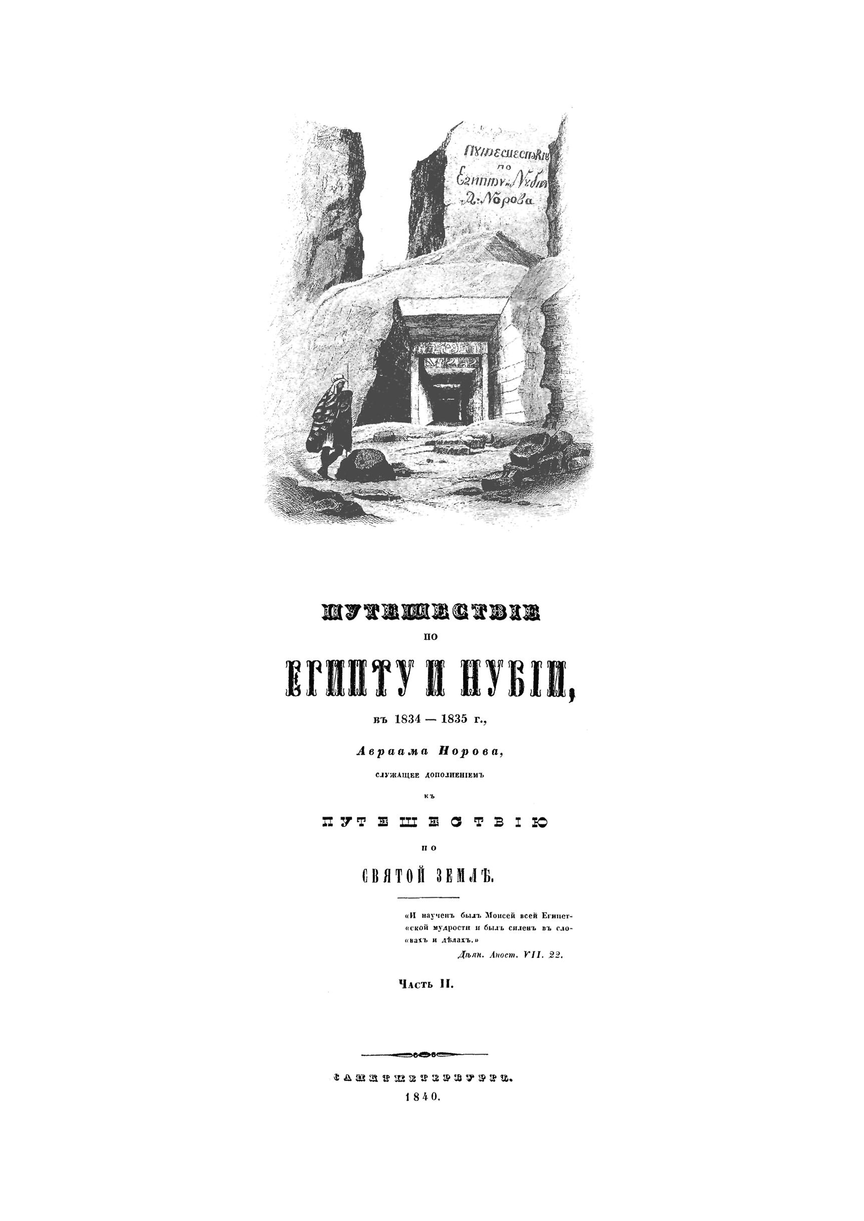 The title page of the book of A. S. Norov "Travel across Egypt and Nubia in 1834-1835"